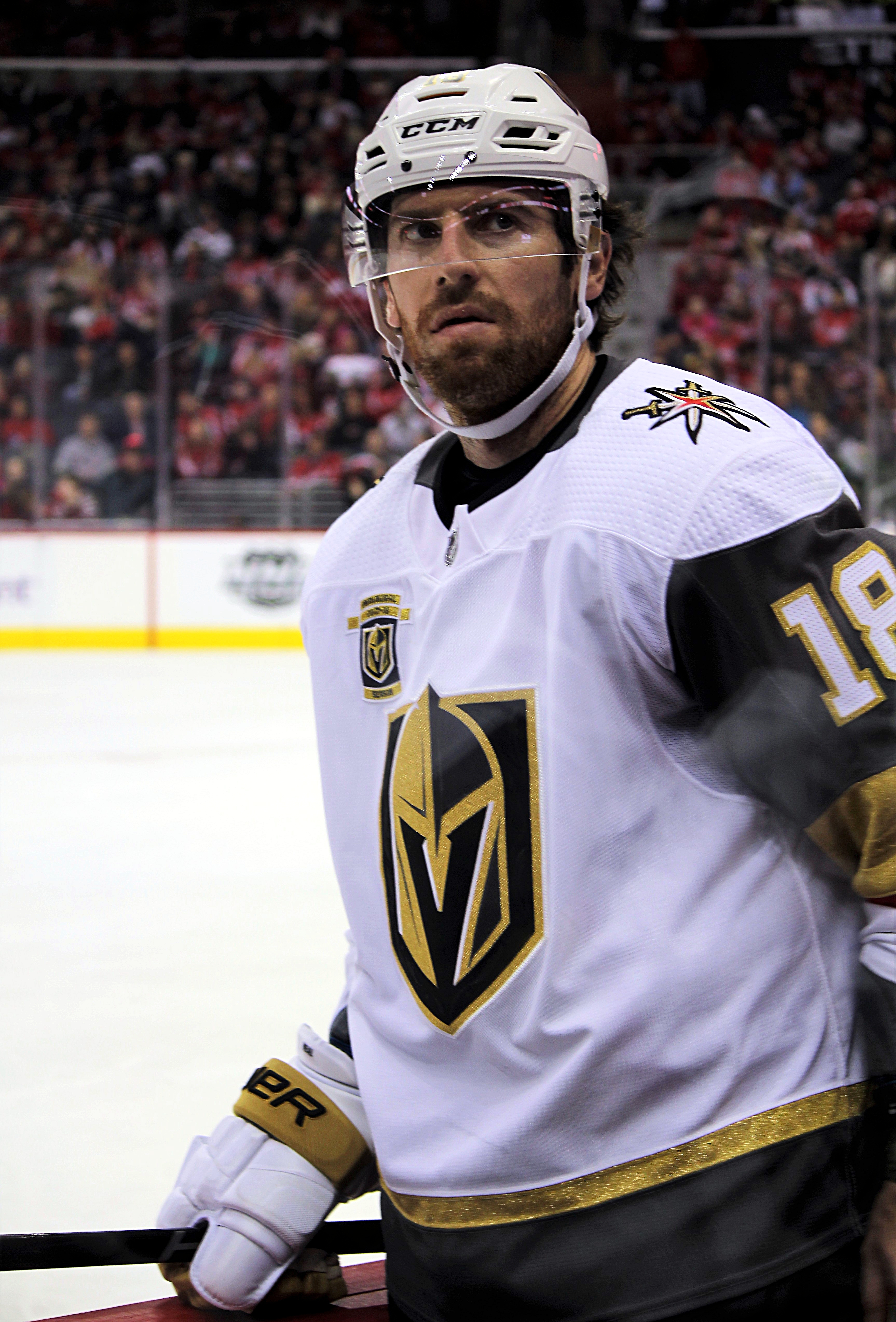 Vegas Golden Knights forward James Neal during a game against the Washington Capitals, February 4, 2018, at Capital One Arena in Washington, D.C.